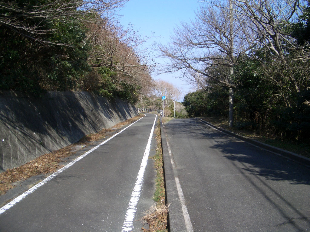 Aichi prefectural road 497, Atsumi-Toyohashi Cycling Road (Hii T, Tahara, Aichi)